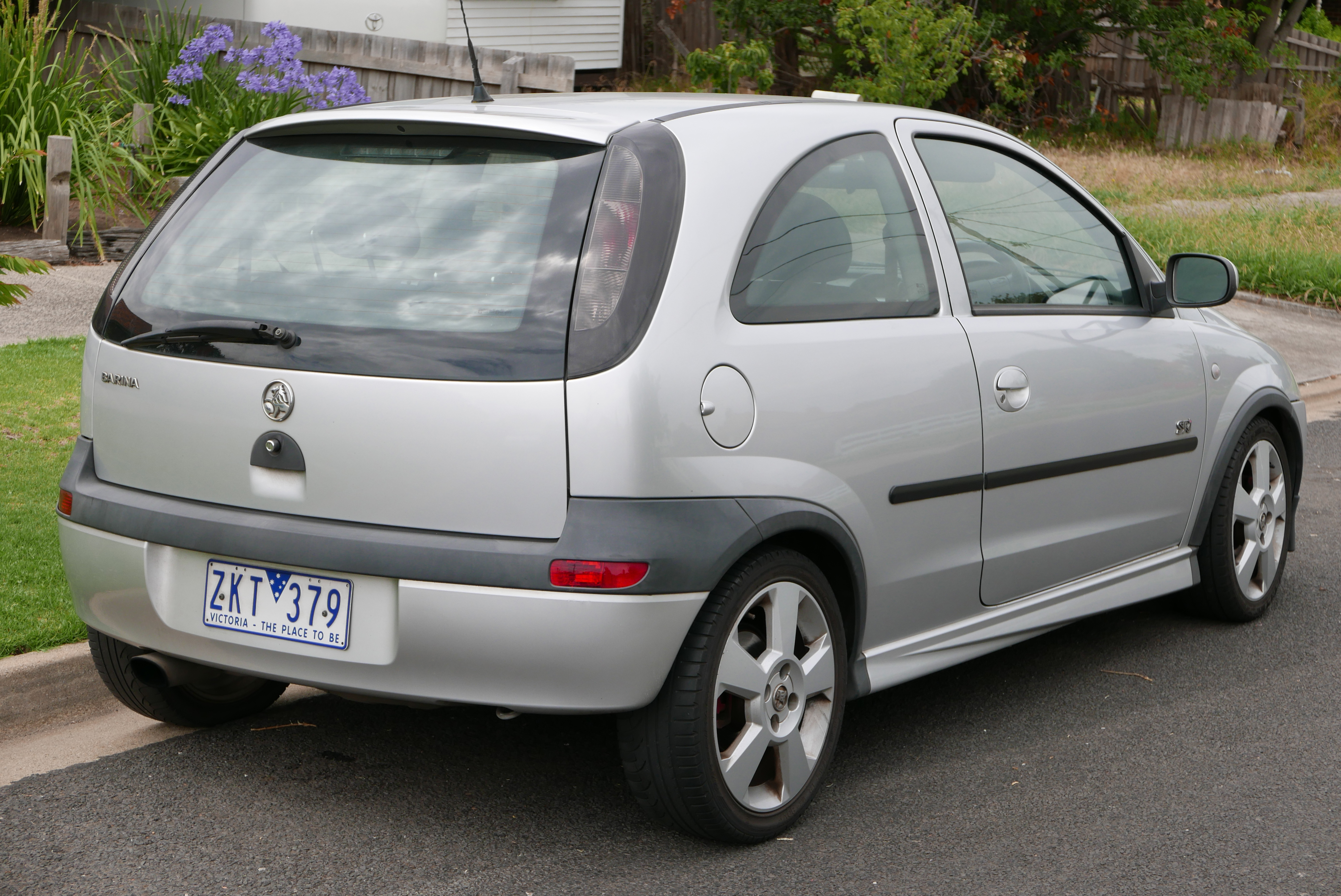 2003 Holden Barina (XC MY03) SRi 3-door hatchback. Despite the date discrepancy between the description and the vehicle registration information below, the MY04 model was released in January 2004. Also, at the time of upload, another example of the SRi was listed for sale by a seller claiming a build date of April 2003 and a compliance plate of February 2004. Photographed in Pascoe Vale, Victoria, Australia. Vehicle registration enquiry resultsJurisdictionVictoriaRegistrationZKT379Chassis codeW0L0XCF0834222532Engine codeZ18XE20AU4078Compliance date2004-02Year of manufacture2004